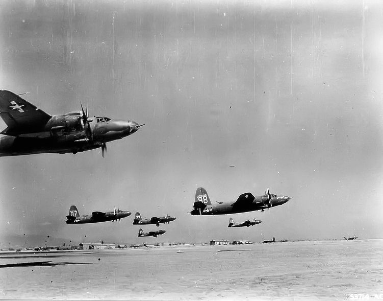 B-26s of the 319th Bombardment Group take off en-masse